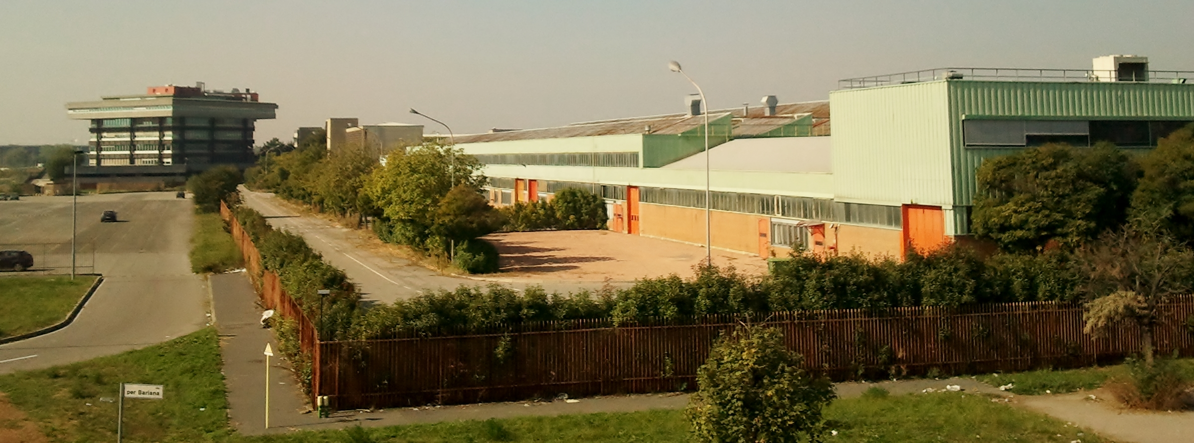 Alfa Romeo facility. Arese. Italy